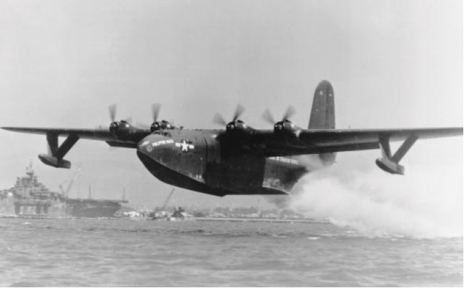 The Martin JRM-3 Philippine Mars (BuNo. 76820) of transport squadron VR-2 taking off fom San Francisco Bay at NAS Alameda, California (USA) to Honululu, Hawaii, in 1946. A "long hull" Essex-class aircraft carrier painted in the wartime measure 21 is visible in the background. By 1956, the Mars had outlived its usefulness for the Navy and had been condemned to the scrap yard. However, after a series of disastrous fire seasons in British Columbia (Canada), a group of logging companies heard about the availability of the Mars. The Mars was ideally suited to British Columbia's abundance of waterways and shortage of strategically placed airfields. Mr. MacMillan Bloedel took the initiative and formed Forest Industry Flying Tankers Limited (FIFT), in partnership with Pacific Forest Products Limited and TimberWest Forest Limited. The new company purchased the last four remaining Martin Mars from the US Navy in 1959. After installation of a 27276 l (7206 US gal) plywood holding tank and retractable filling probes. As of 2008 Philippine Mars is still in use by "Coulson Flying Tankers" with the Canadian registration C-FLYK.